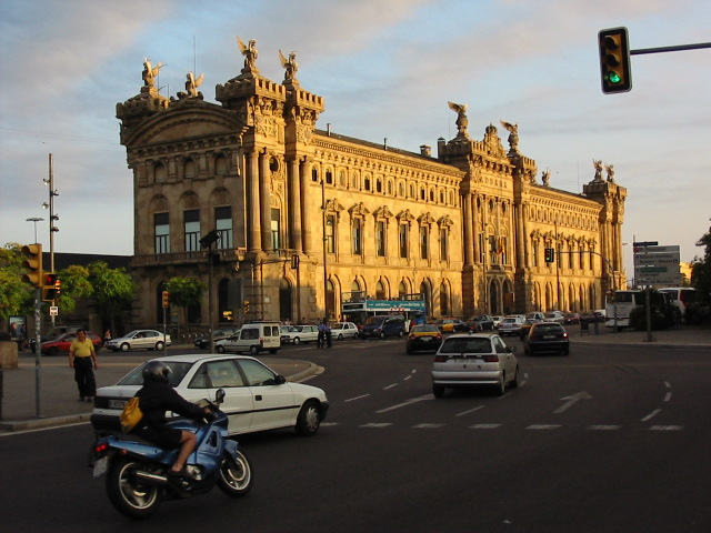 Barcelona: Customs house (Aduana) by Enric Sagnier and Pere Garcia Fària, built between 1895 and 1902.